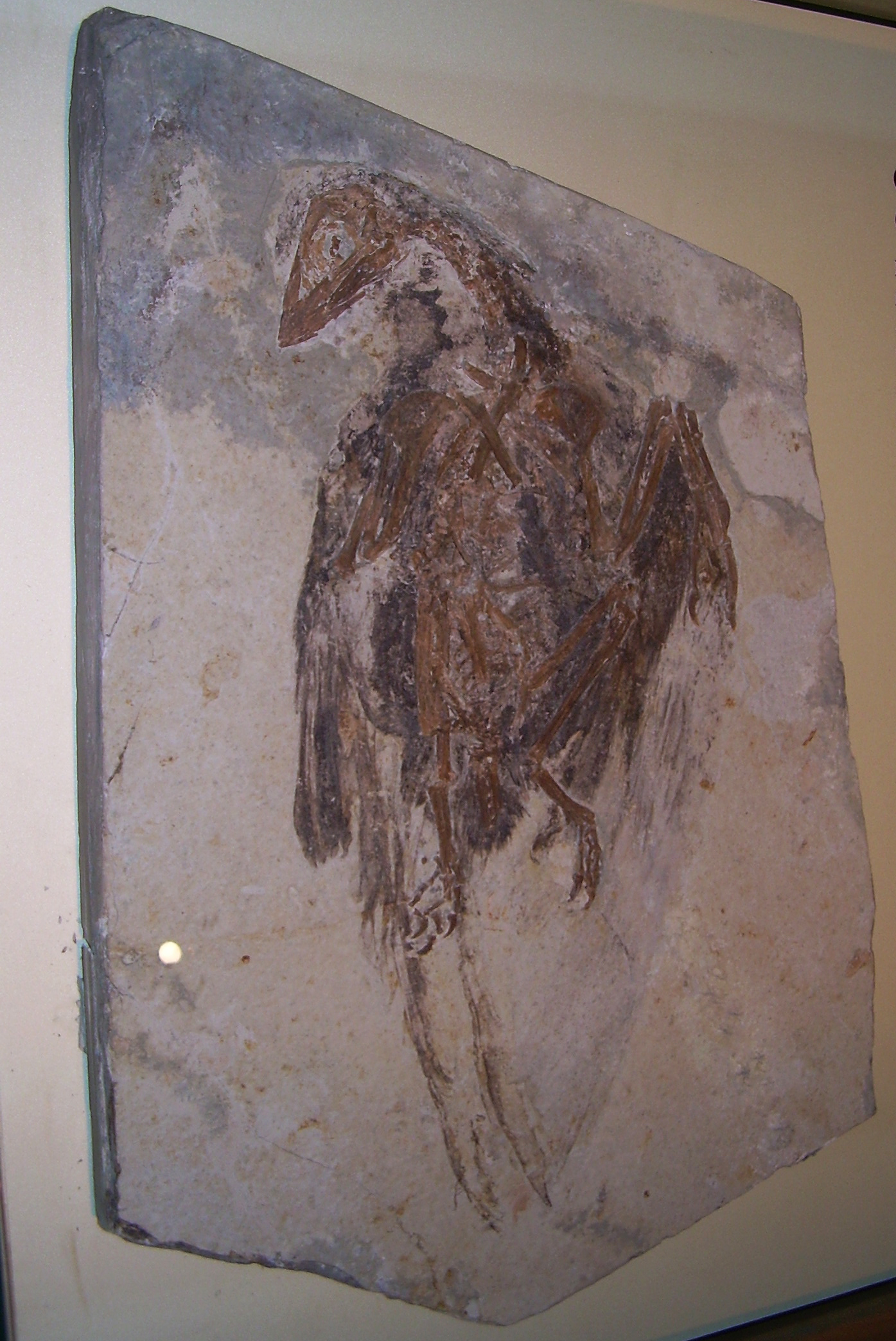 Photograph of a fossil cast of a Confuciusornis sanctus fossil taken at the North American Museum of Ancient Life.